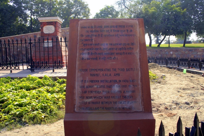 Obelisk, Commemorating Third battle of Panipat The Third battle of Panipat was fought in 1761 between Ahmad Shah Abdali and Marathas under Sadashivrao Bhau,vishwasrao,mahadaji shinde. 'Kala Amb' is a memorial built in memory of the maratha soldiers who died in the battlefield of Panipat. It is said that blood of the dead soldiers was mixed with the soil and the fruit of a mango tree became black in color due to that and hence the name "Kala Amb" meaning 'Black Mango'.